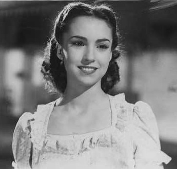 Yeya Duciel- actriz